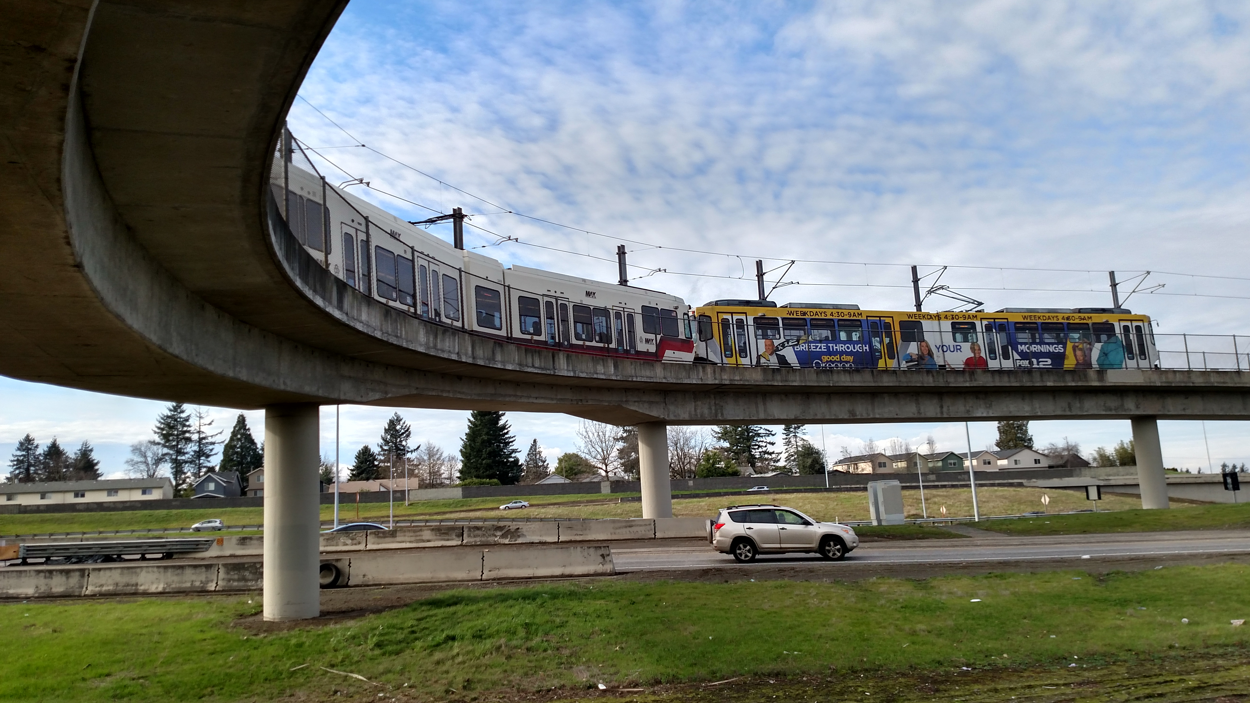 Curved bridge which carries the MAX Red Line over I-205 exit ramps south of Gateway Transit Center in February 2018